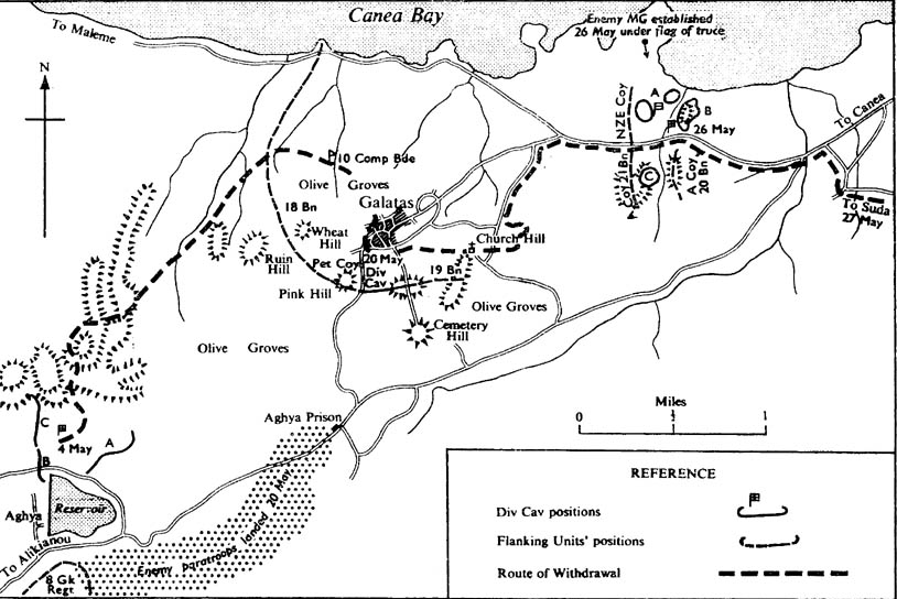 Positions of the New Zealand Divisional Cavalry Regiment in Crete, 4-26 May 1941